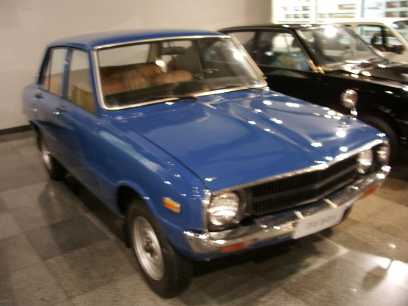 Kia Motors is South Korea's oldest automotive manufacturer, dating back to bicycle production in the 1940s. It partnered with Honda to build motorcycles from the 1950s, and by the 1960s, building a Mazda 3-wheeled truck, gathered quite a bit of automotive know-how. Kia again partnered with Mazda, and starting in 1974, license-produced the Mazda Familia, renaming the car Brisa. Kia was able to use its accumulated know-how to produce most of the components in-house; the 1976 Brisa had 89% Korean content. The Brisa was well-regarded, especially popular as a taxicab, but production had to stop in 1981 after 31,017 units, thanks to a new government policy, of another military dictator Chun Doo-hwan, which required Kia to become a light truck manufacturer (and in return, force its competitors to give up light trucks), in the name of reducing redundancy in the national economy. The policy was lifted in 1987, at which time Kia returned to passenger cars with the Pride, based on the Mazda 121; the Pride was exported to the US as the Ford Festiva and was very well regarded. Prior to the forced 1981 shutdown, Kia rounded out its passenger car lineup with two other foreign models assembled under license: the Fiat 132 and the Peugeot 604.